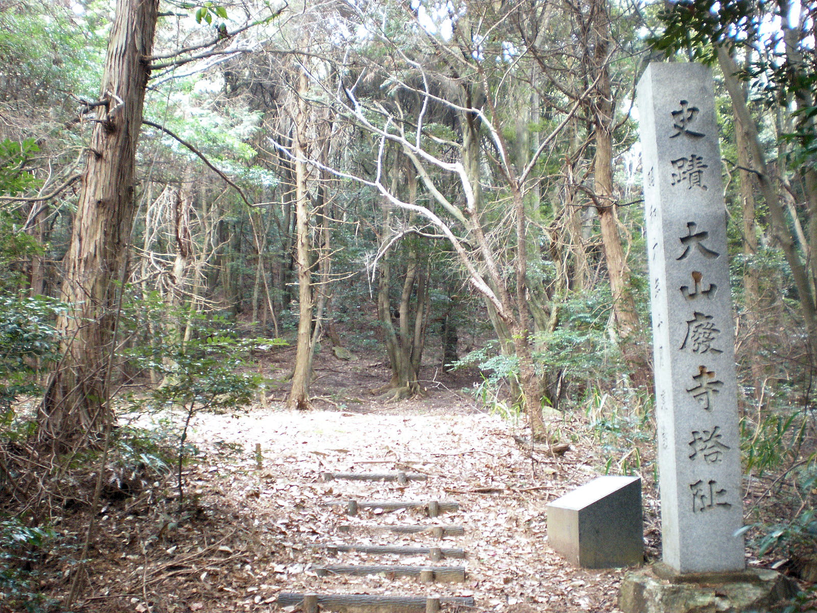 Ruins of a temple of Ohyama in Komaki, Aichi Pref